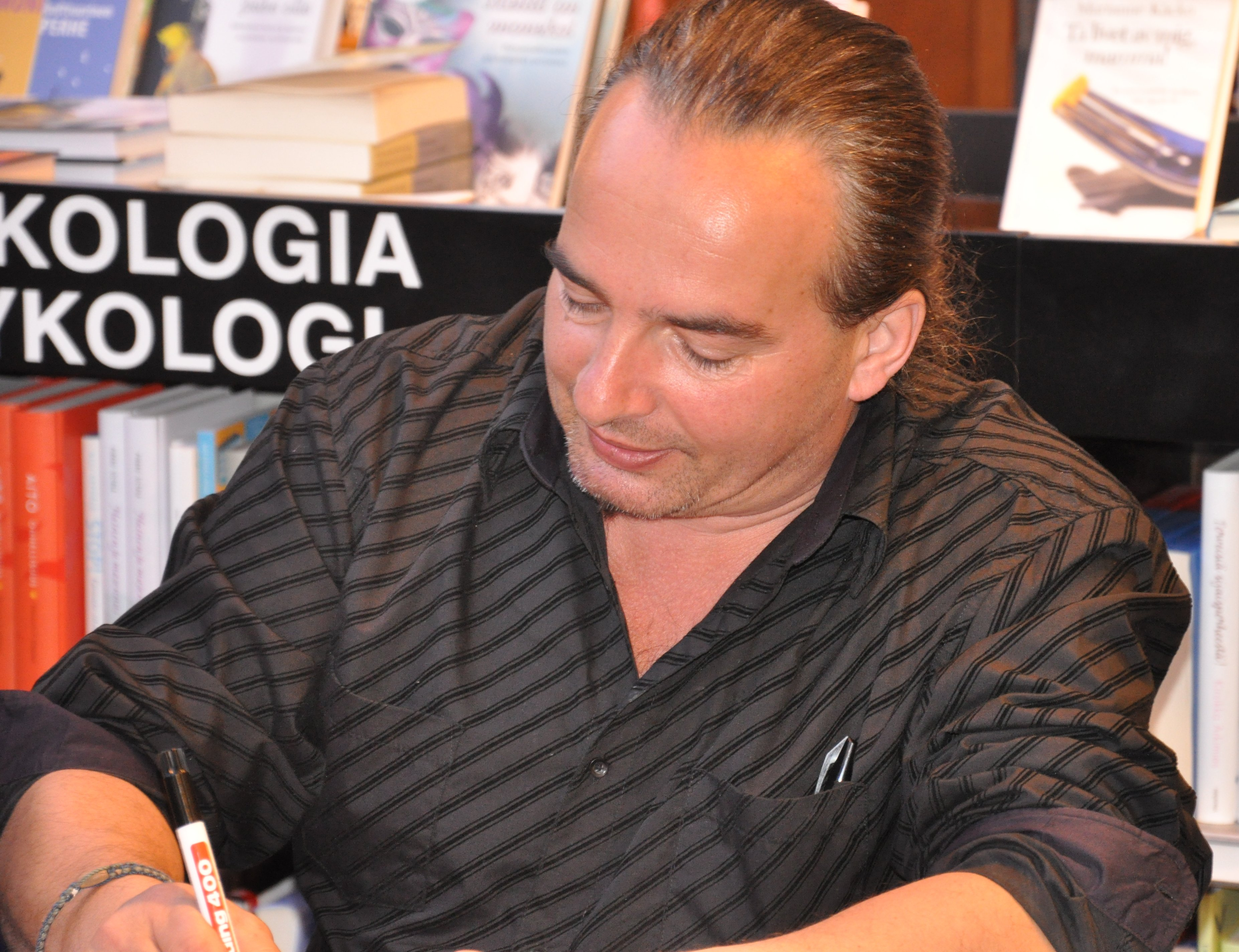 Dutch comic artist Bas Heymans signing a book at the Academic Bookstore in Turku, Finland.